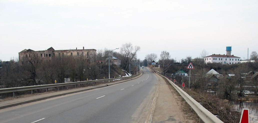 Bykhaw castle, march 2010. Photo by Tumash, Oldmah.